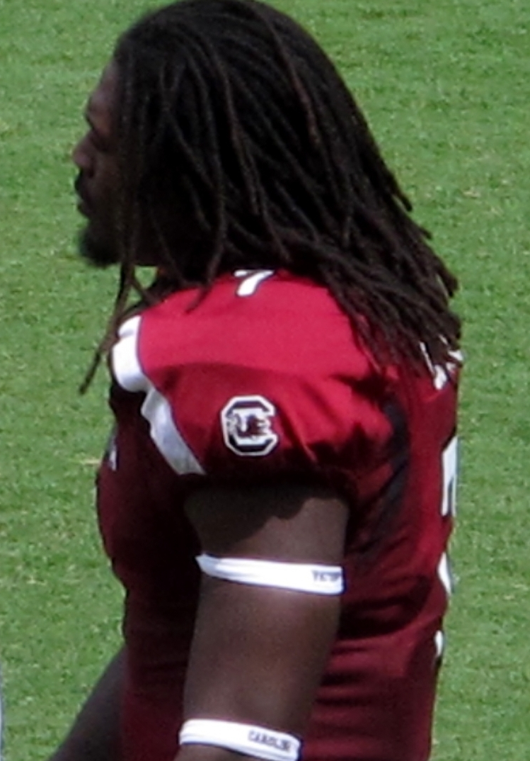 Jadeveon Clowney, a player on the National Football League.